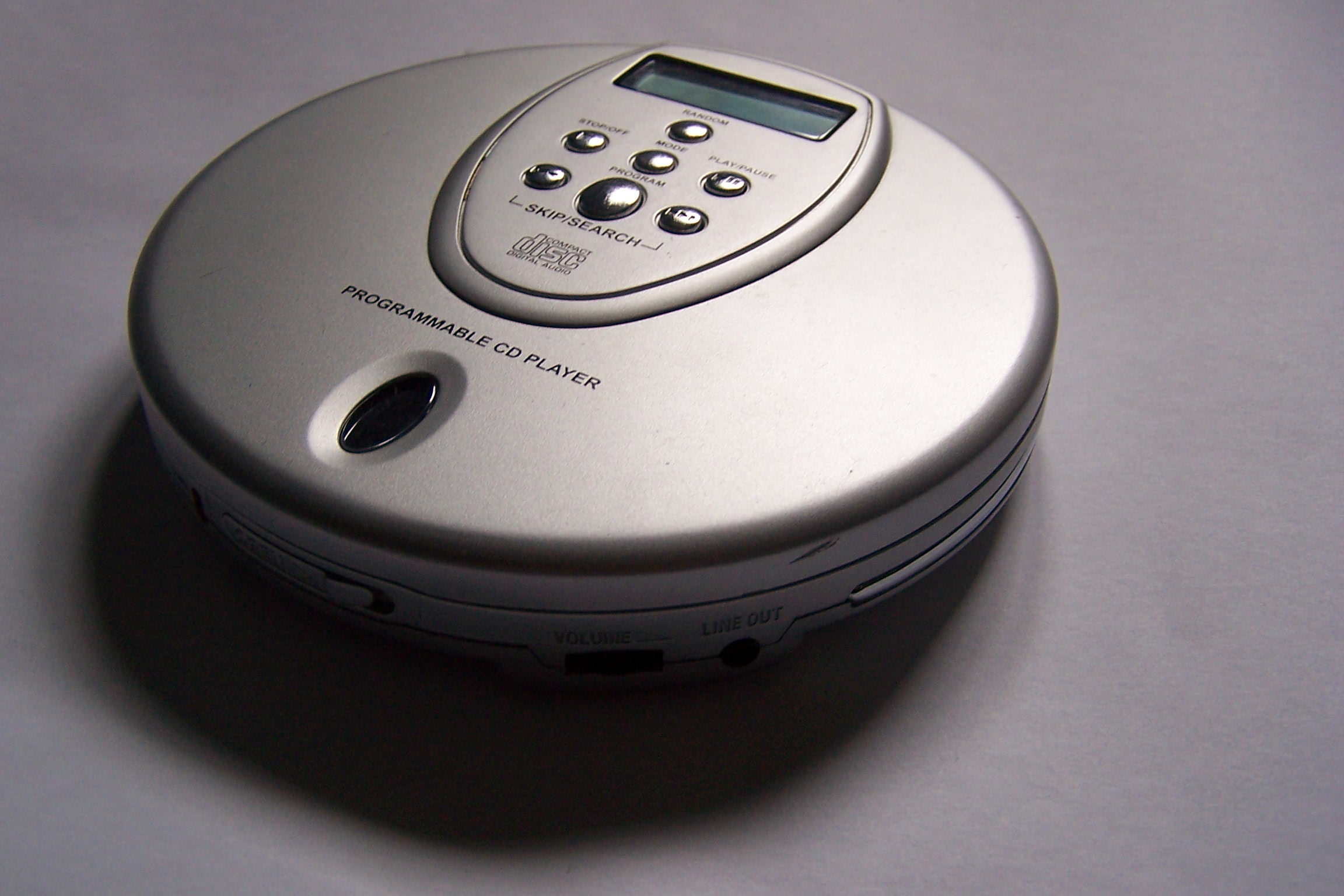 Silver Woolworths Personal CD Player 266D0290, came free with a mobile phone.